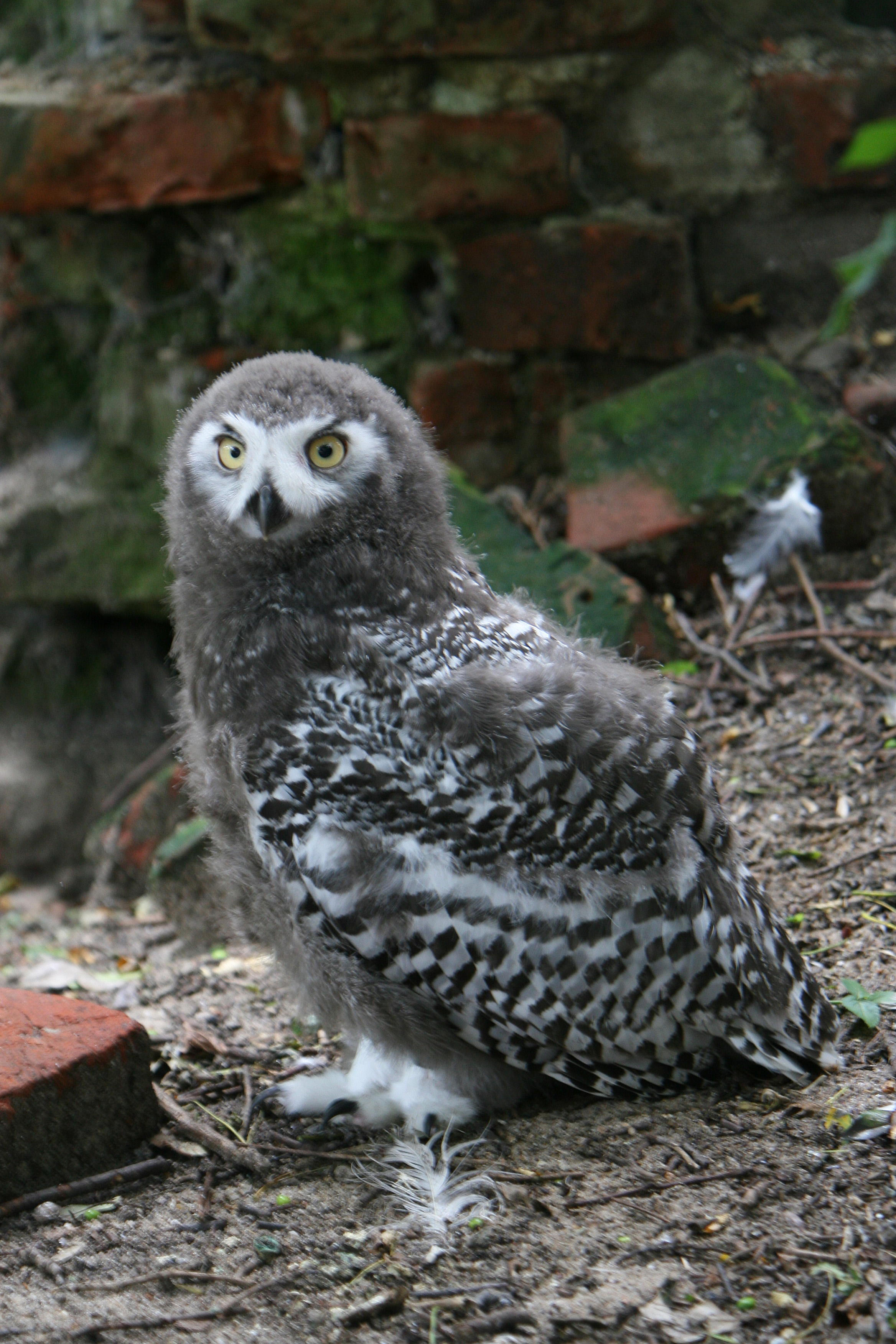 A Snowy Owl chick at Artis Zoo, Netherlands.